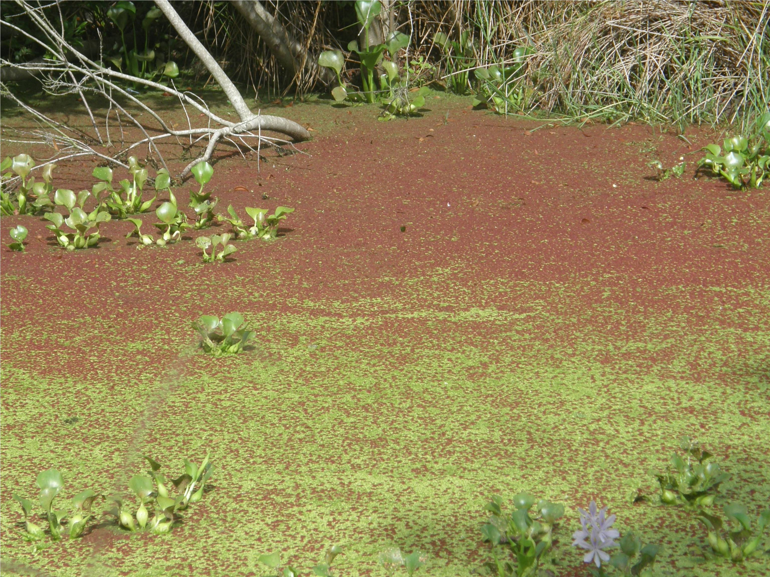 Green is giant duckweed, red is Azolla water fern.